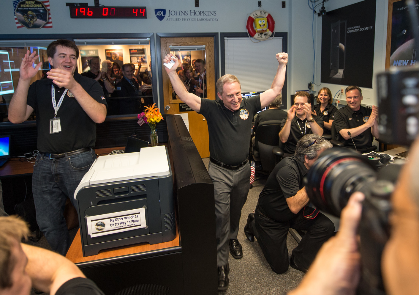 Original Caption: New Horizons Principal Investigator Alan Stern of Southwest Research Institute (SwRI), Boulder, CO. celebrates with New Horizons Flight Controllers after they received confirmation from the spacecraft that it had successfully completed the flyby of Pluto, Tuesday, July 14, 2015 in the Mission Operations Center (MOC) of the Johns Hopkins University Applied Physics Laboratory (APL), Laurel, Maryland.